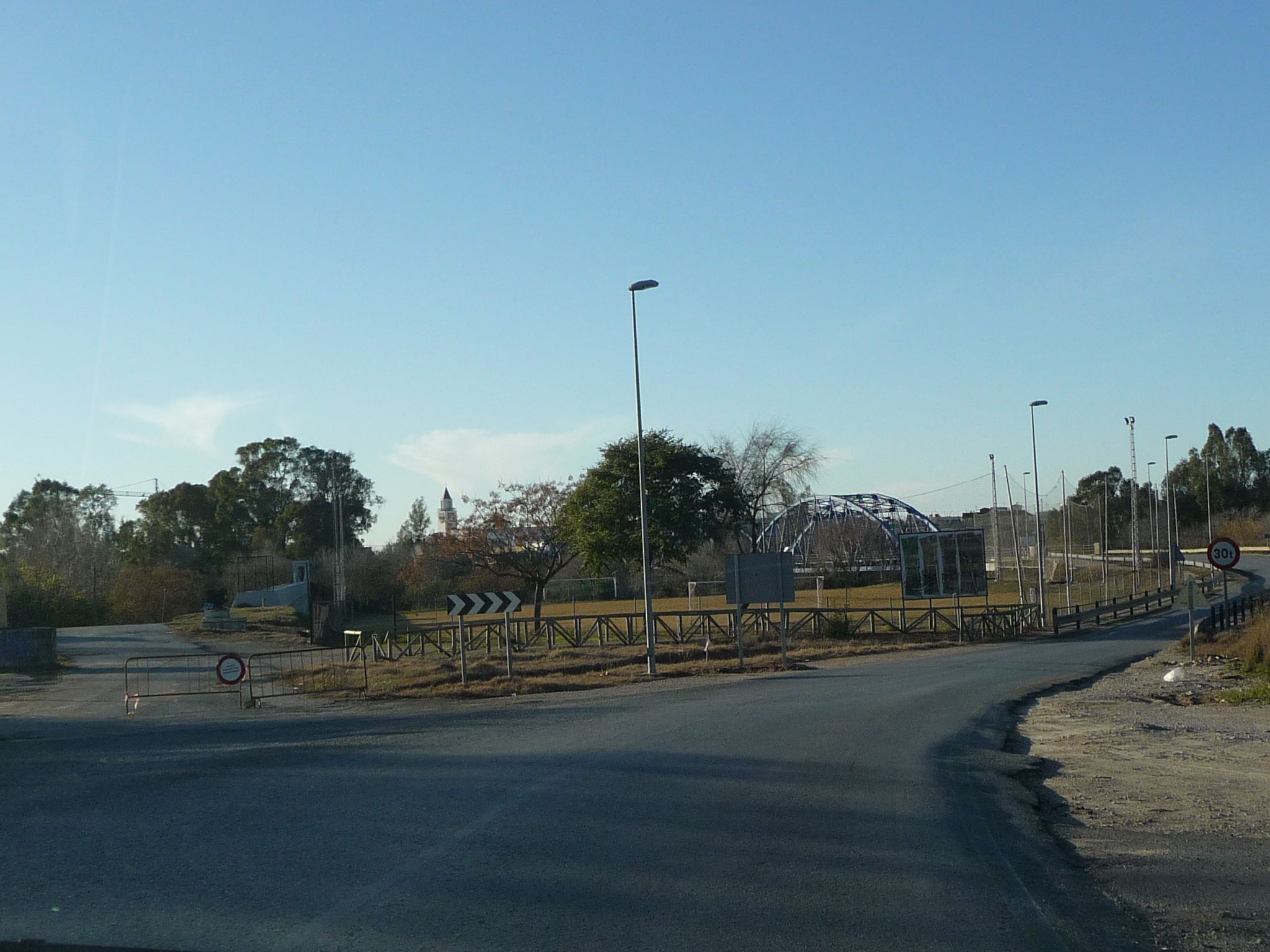 La Barca de la Florida, Jerez de la Frontera (Andalusia, Spain)